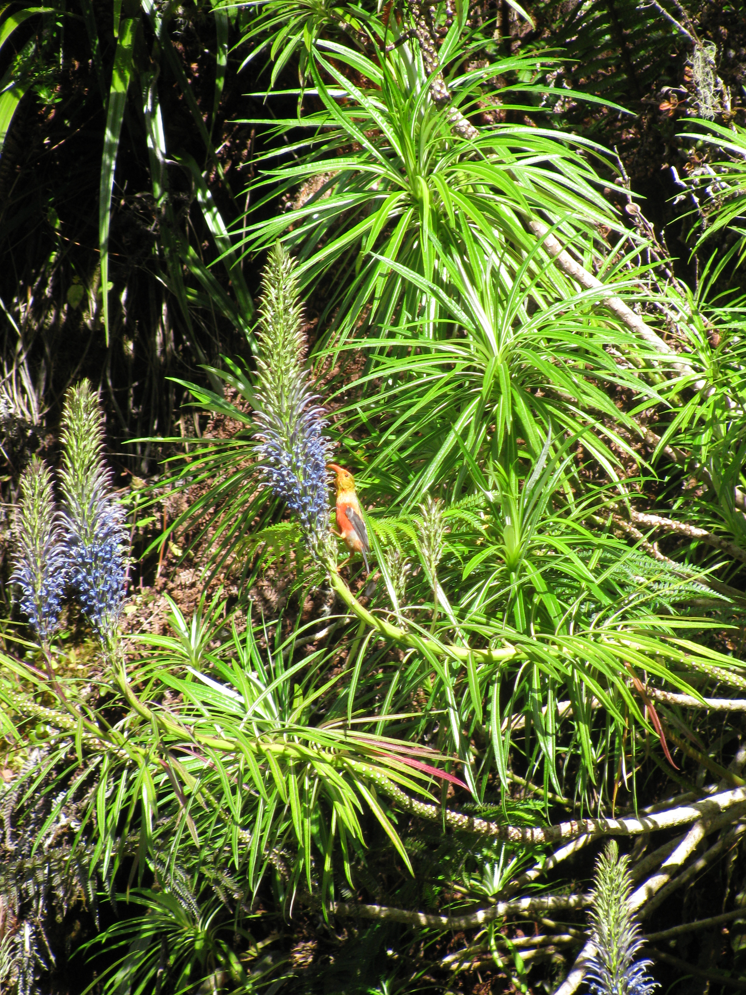 Lobelia grayana (Lobelia) Flowering habit with juvenile iiwi sipping nectar at Bird Loop Waikamoi, Maui, Hawaii. September 08, 2010 #100908-4231 Image Use Policy